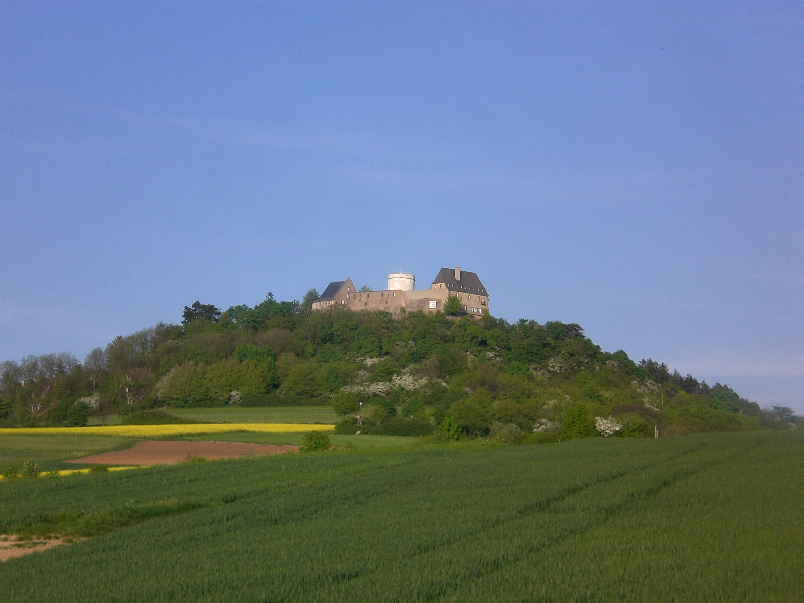 Distant view of Mount Otzberg in southern Hesse (Germany).